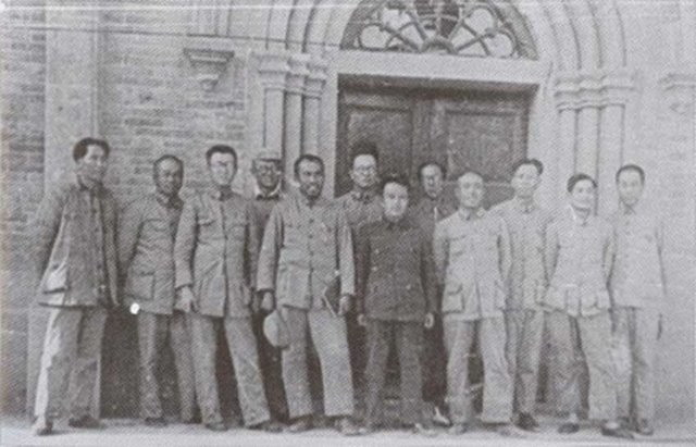 1938 Mao Zedong Wang Ming in Yan'an with Wang Ming, Chu De, Pang Dehuai, Liu Shouqi, Zhou Enlai, etc. 毛在一九三八年秋的「六屆六中­全會」上。出席全會的中共政治局成­員在會址延安橋兒溝天主堂前，自左起：毛澤­東、彭德懷、王稼祥、張聞天、朱德、博古、王明、康生、項英、劉少奇、陳雲、周恩來。